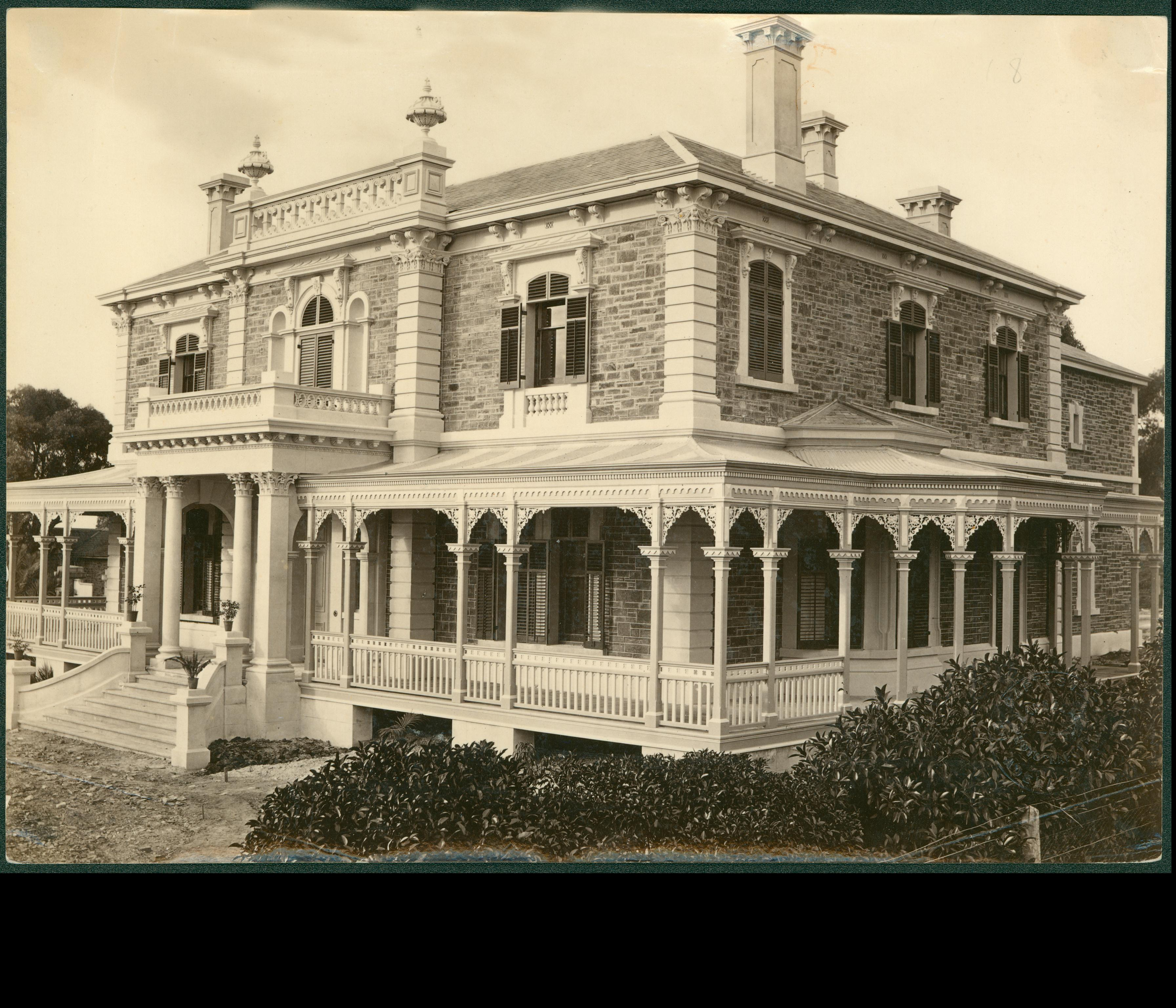 Glen Osmond: "Benacre" Benacre house (without land) is at 6 Benacre Close, off Glen Osmond Rd between Fisher St and Fergusson Ave. 1844 a single-storeyed house was built by G.F. Shipster after the subdivision of section 270 by the main road it passed to Robert Cock. 1846 Purchased on 16 acres by William Bickford who planted the first garden and built a portion of the residence. The next owner was T.B. Strangways, followed by Thomas Graves, who had the grounds replanted as a shrubbery and built 'the present two-storey house.' mid-1870's: Henry Scott, Mayor of Adelaide. During Scott’s tenure of some 30 years, he hosted countless social events. 1906-1923 John Lewis At the death of Hon. John Lewis the property was subdivided into 39 building blocks. 1924-1968 Gretta Lewis ... 1970 Further subdivision: Benacre subdivision [fifteen magnificent residential allotments, the gracious mansion 'Benacre', two storeyed stone mews, to be sold by auction on the estate 2nd May, 1970 at 10.30 a.m.] Adelaide : Matters & Co. Pty. Ltd. [and] Theodore Bruce & Co. Pty. Ltd. ...